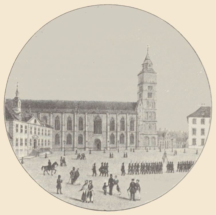 Domshof quare and noerthern side of the Cathedral in Bremen mid 19th century